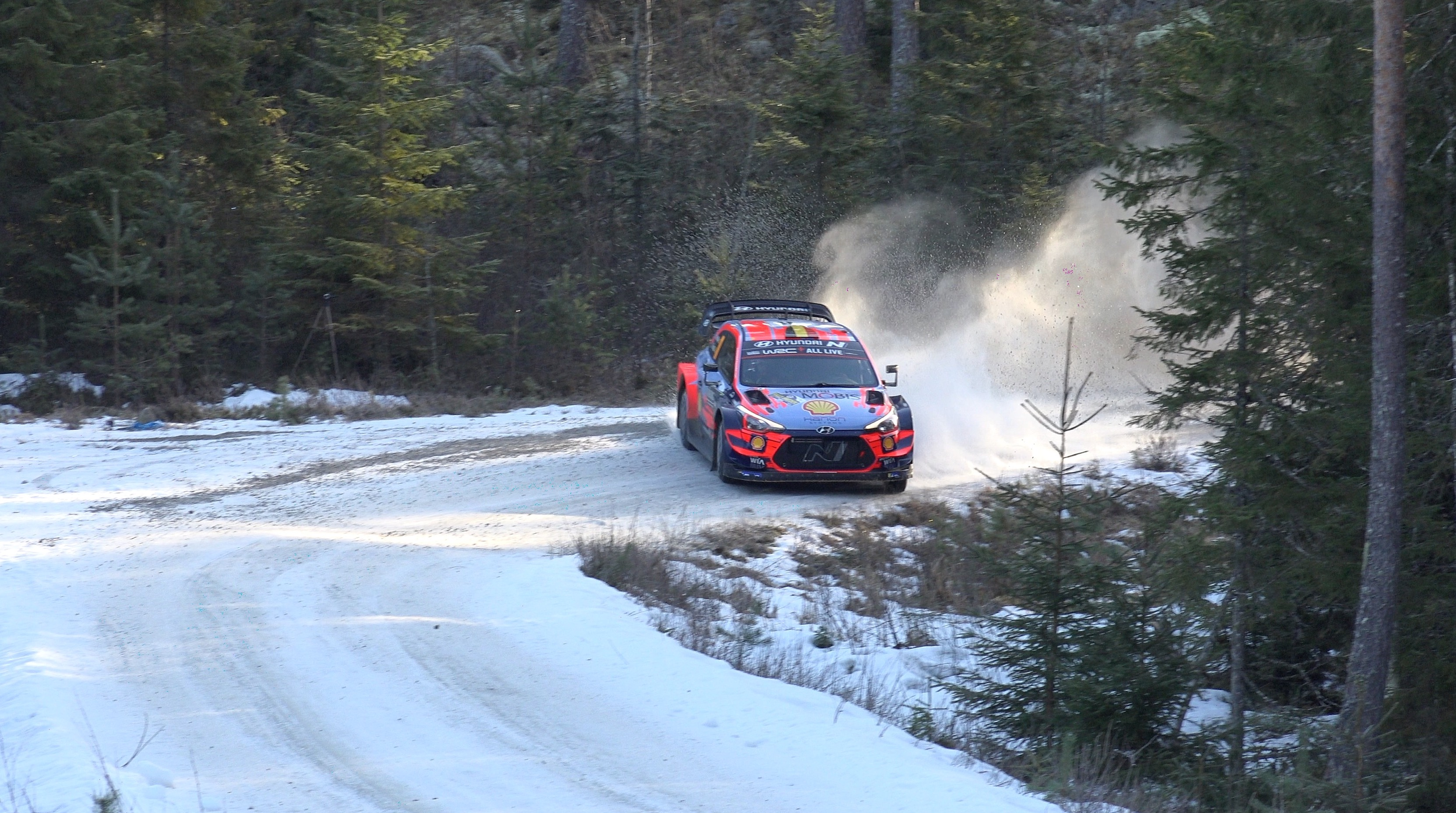 Neuville at Rally Sweden 2020.